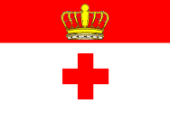 Flag of Birkirkara, Malta.